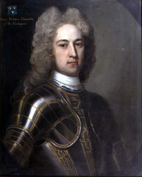 Henry Pelham (1694-1754)